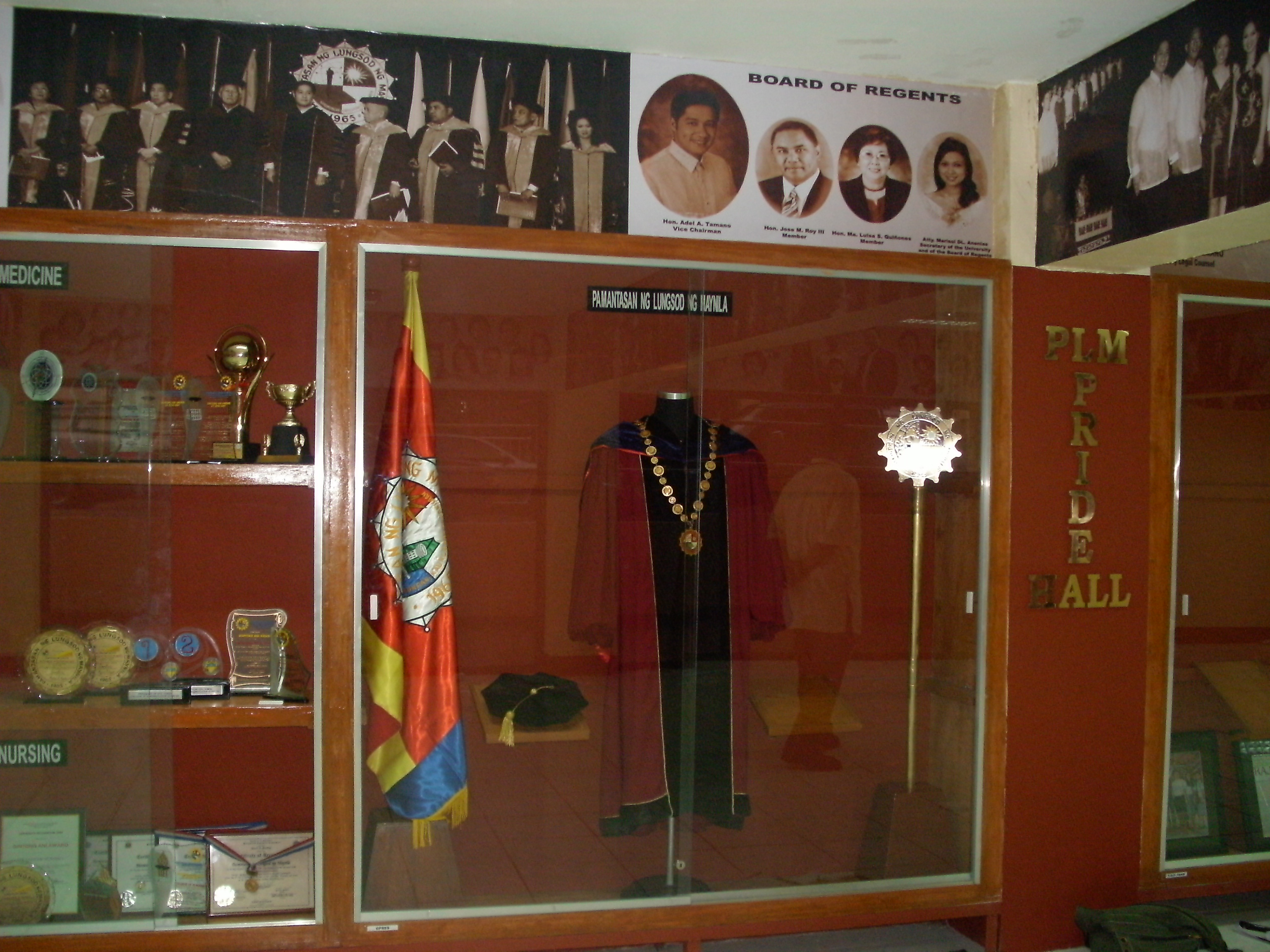 PLM symbols, insignia, memorabilia and other representations.